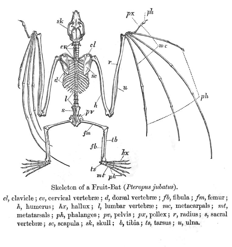 Skeleton of Pteropus jubatus = Acerodon jubatus